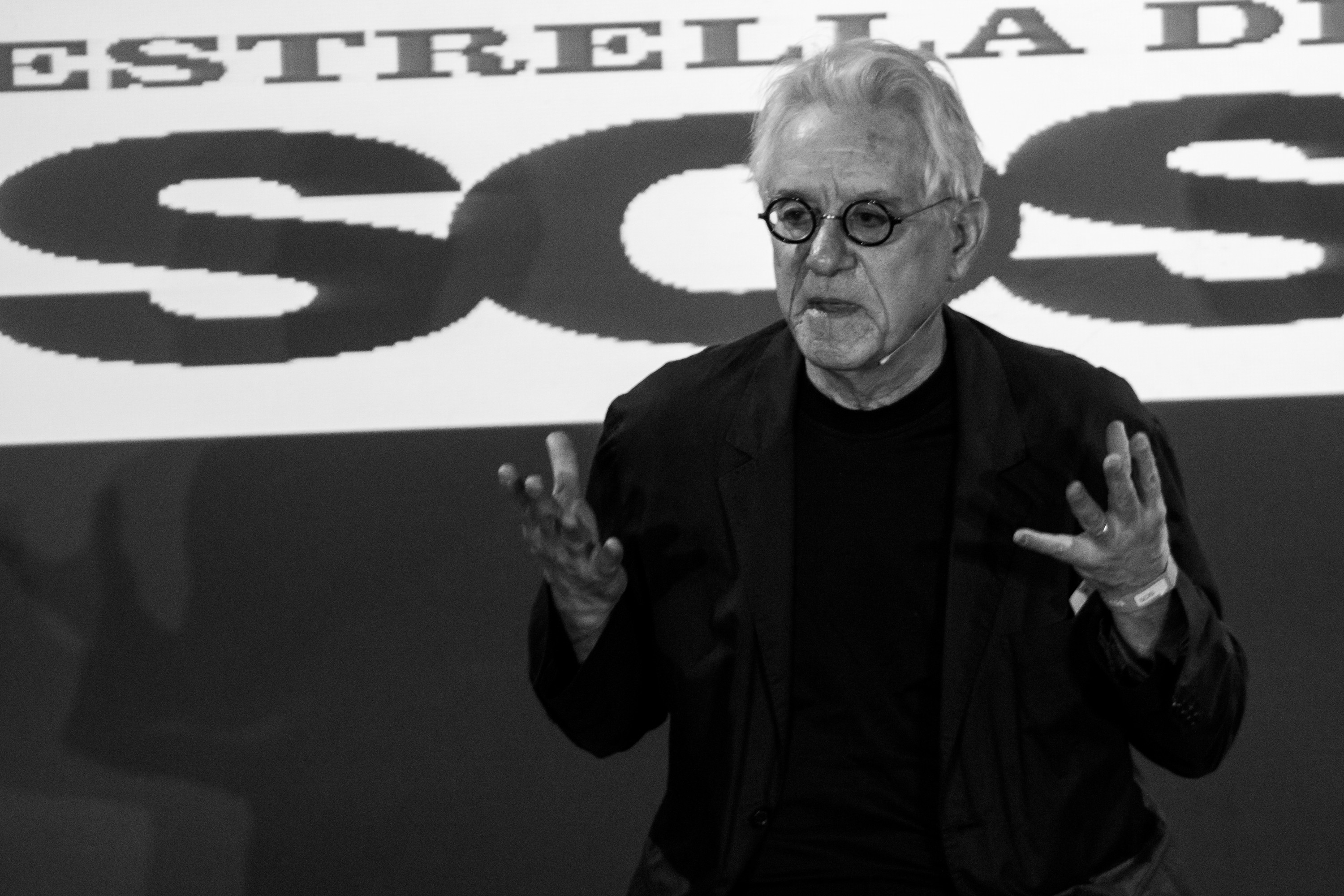 Greil Marcus (born June 19, 1945) is an American author, music journalist and cultural critic.